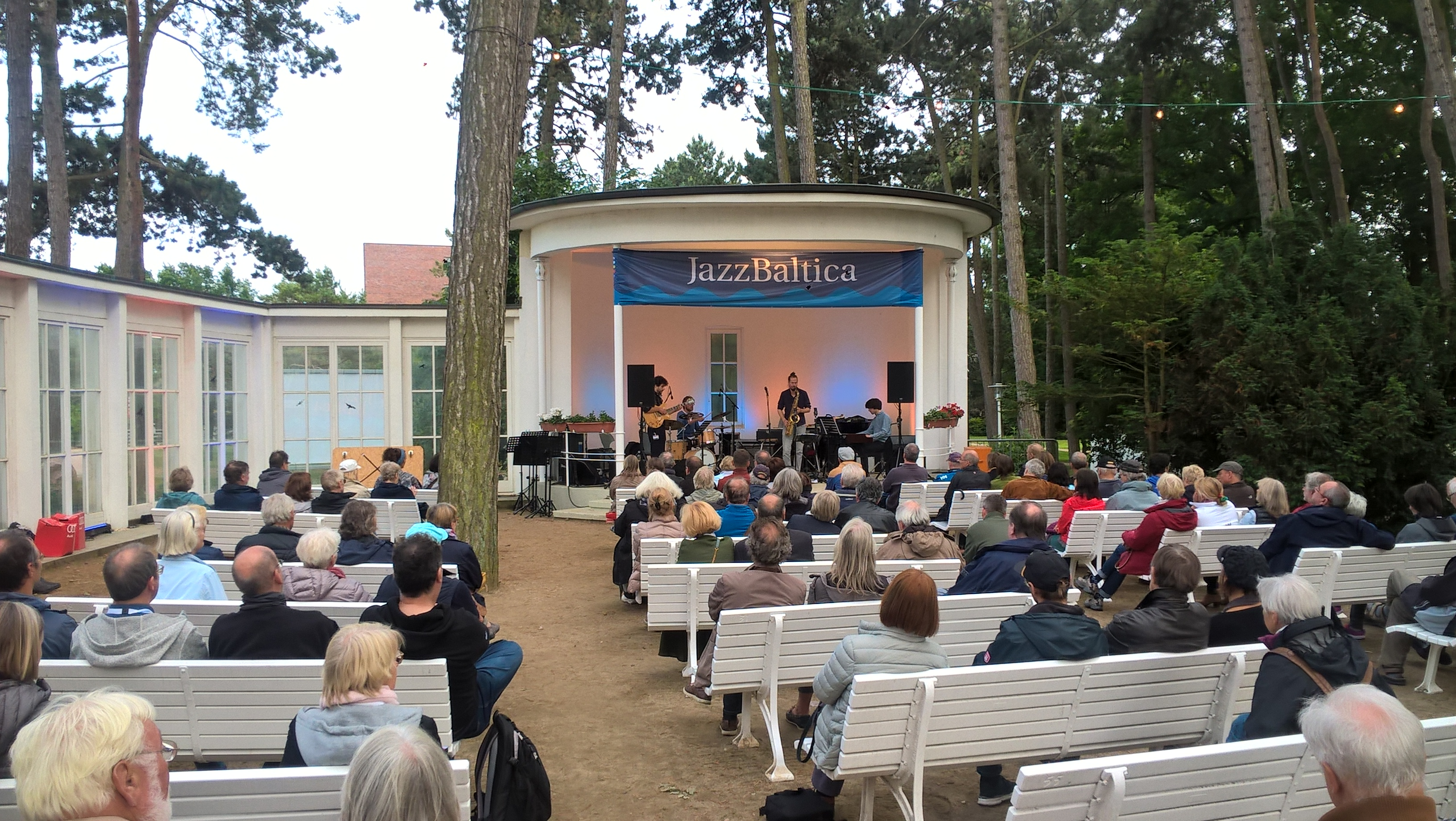 Jazz Baltica 2018, Timmendorfer Strand